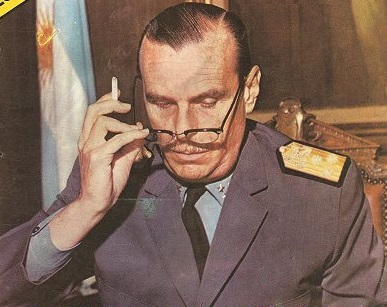 Almirante Pedro Alberto José Gnavi.